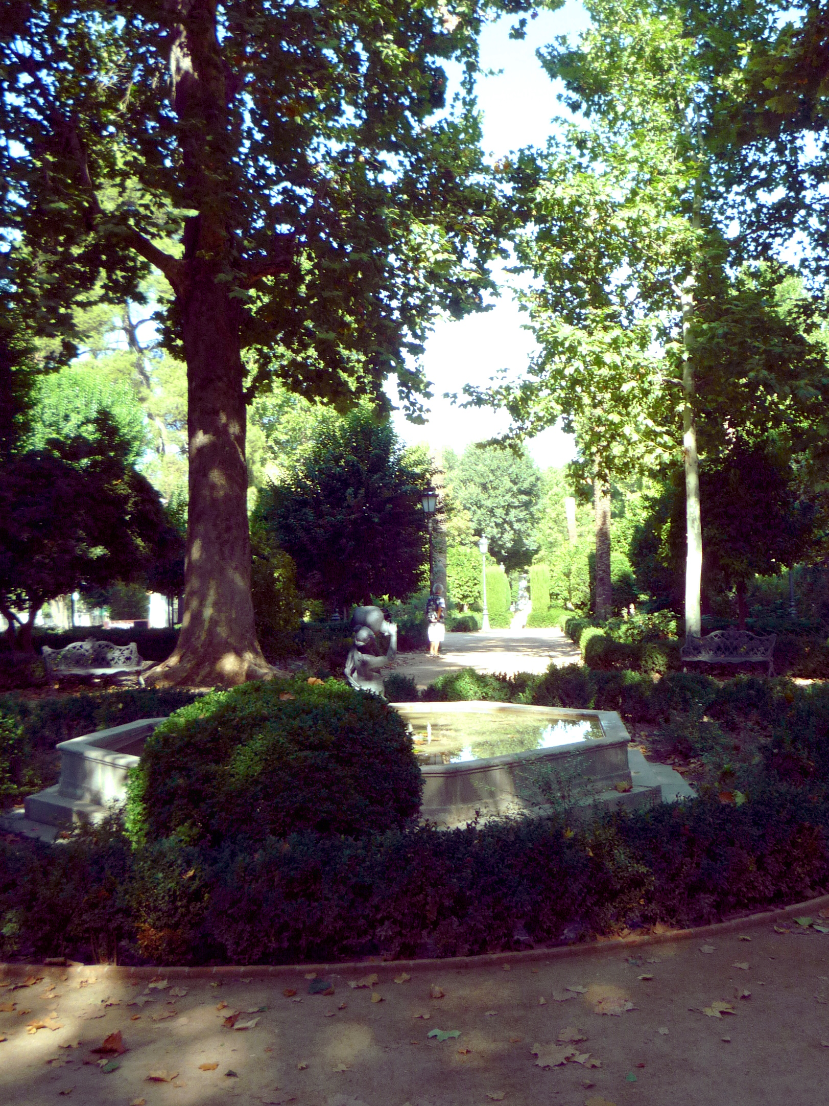 Parkanlage am Genil. unter dem Paseo de la Bomba, zu Recht als Paseo Salon bekannt. See more about in a related article (DE) of my travelblog.